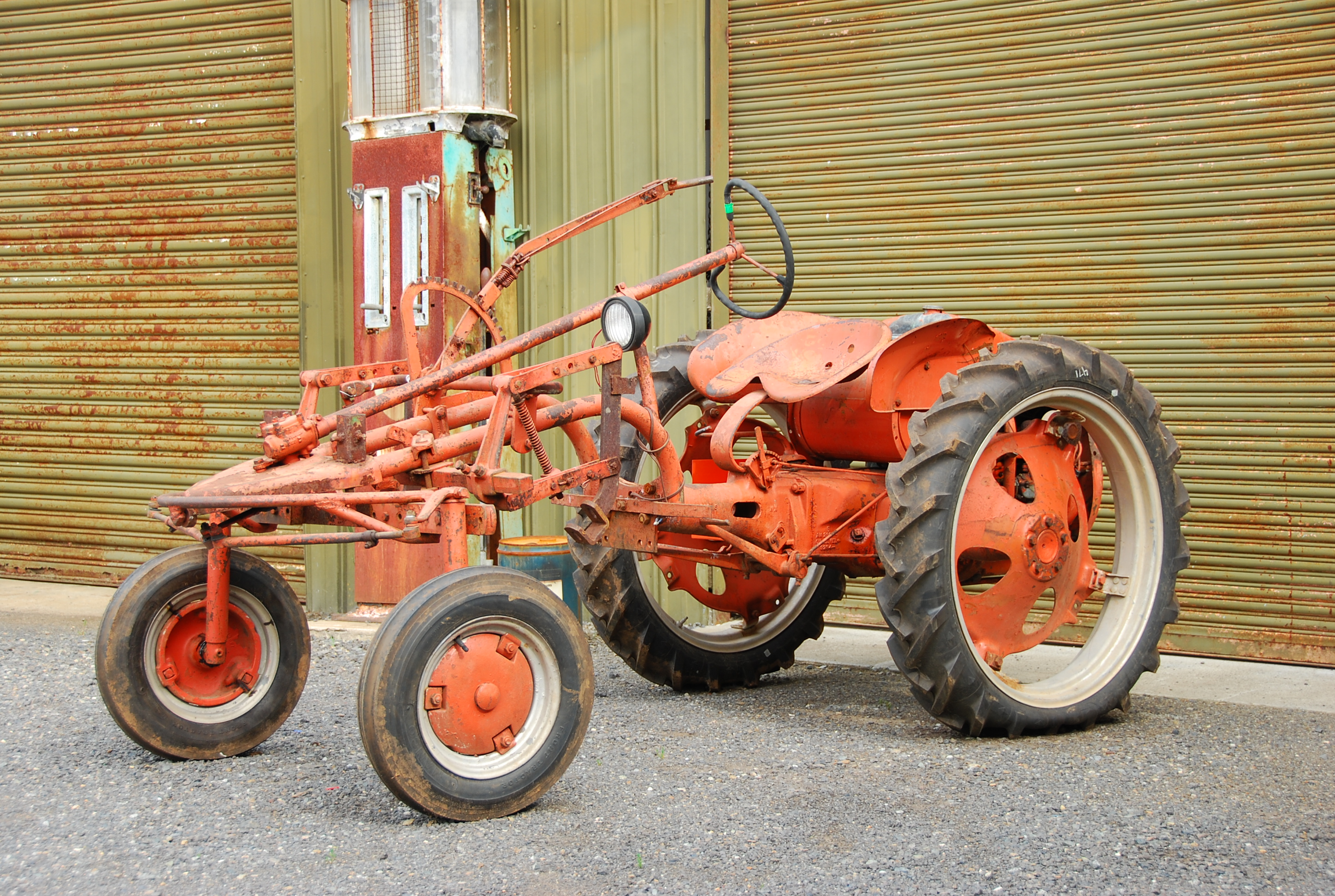 Allis Chalmers G Model 40-50's Part of a vintage collection